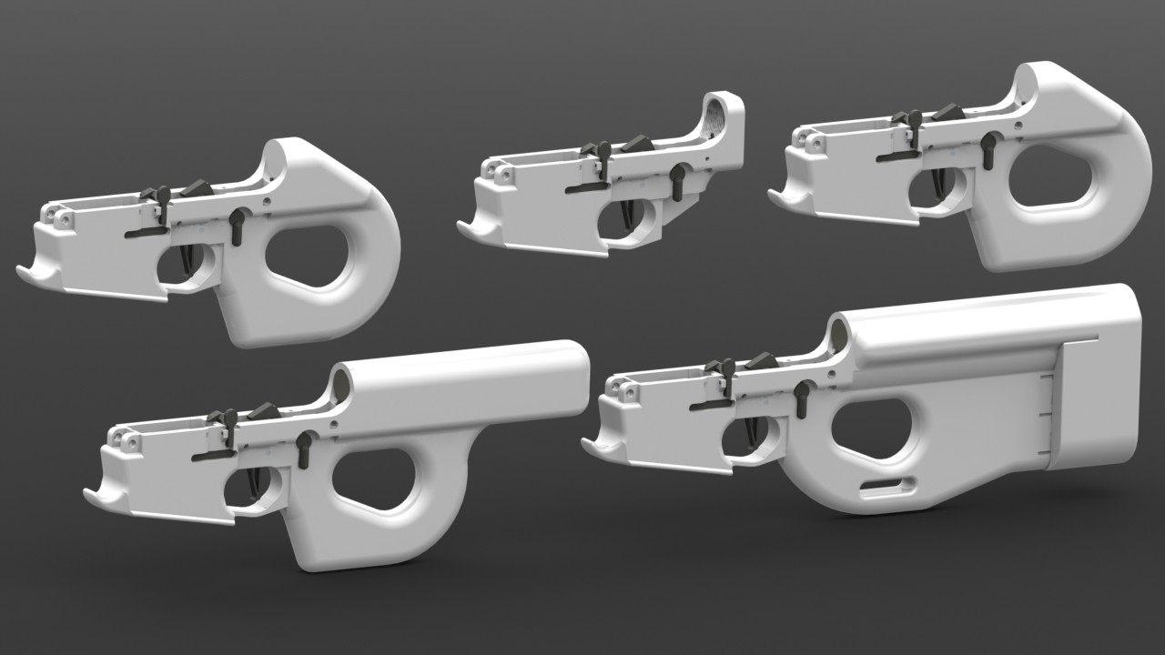 This is a group render of a line of 3D Printable AR-15 lower receivers designed by user Shanrilivan.